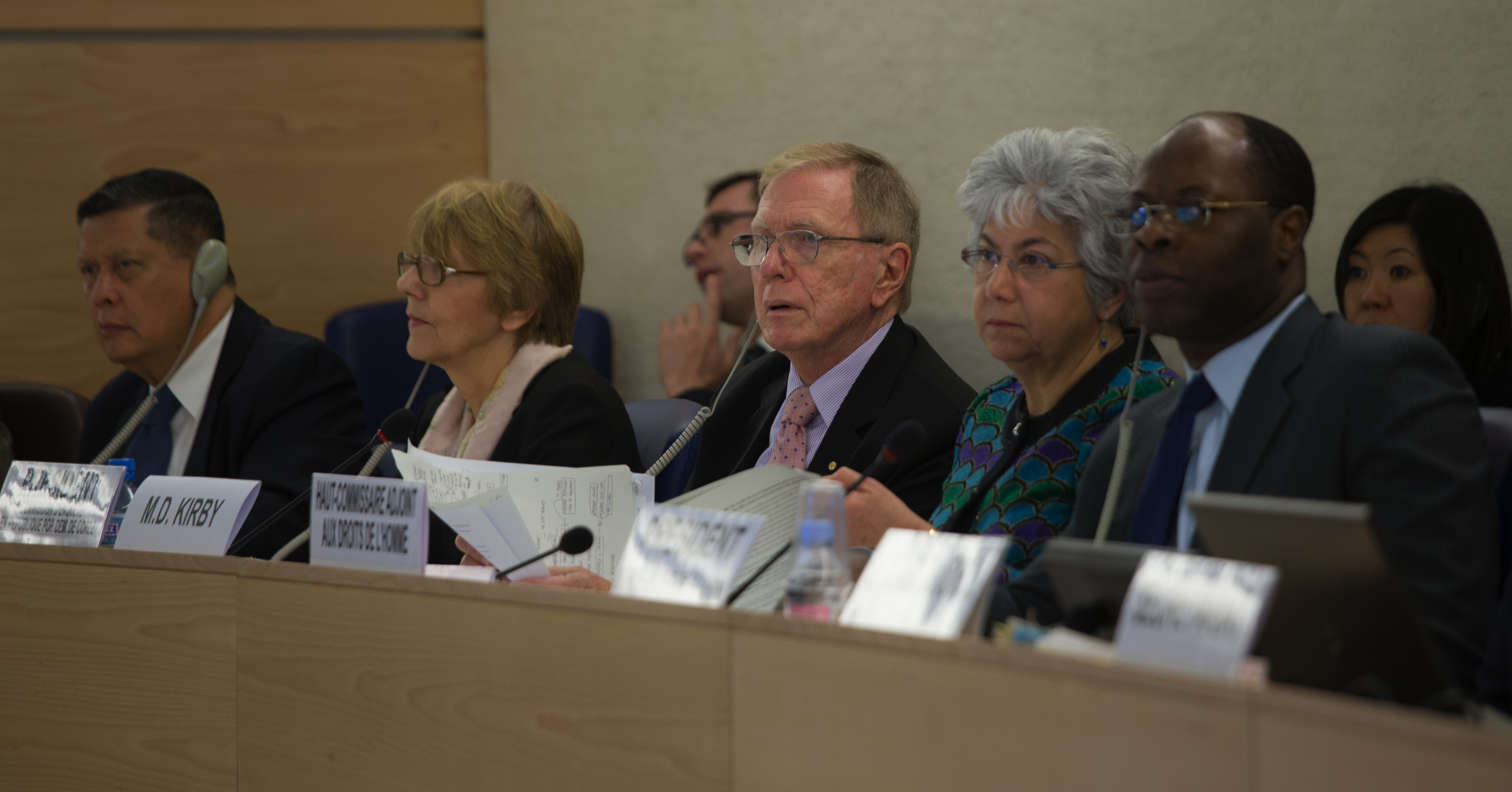 The United Nations Commission of Inquiry on North Korea formally presented its report to the Human Rights Council March 17, 2014. The image shows the three commissioners: Michael Donald Kirby (Chair; Australia), Marzuki Darusman, (the existing Special Rapporteur on the situation of human rights in the DPRK; Indonesia), and Sonja Biserko (Serbia)